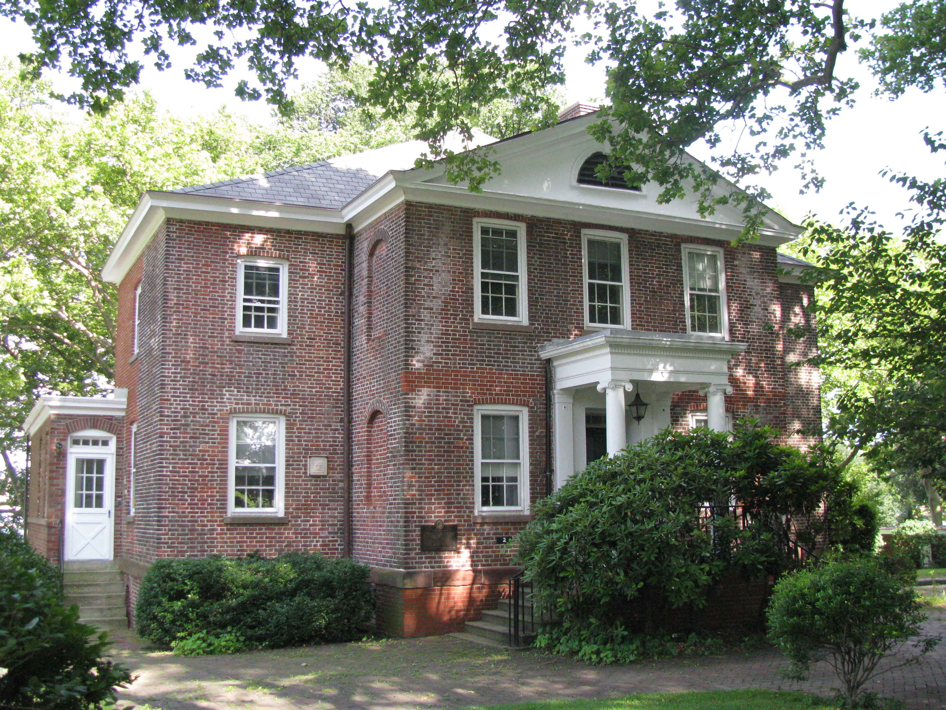 The Governor's House at Governors Island, New York City. Listed on the National Register of Historic Places.